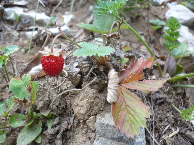 A plant of strawberry (Fragaria vesca) grown in Imèr, Italy.